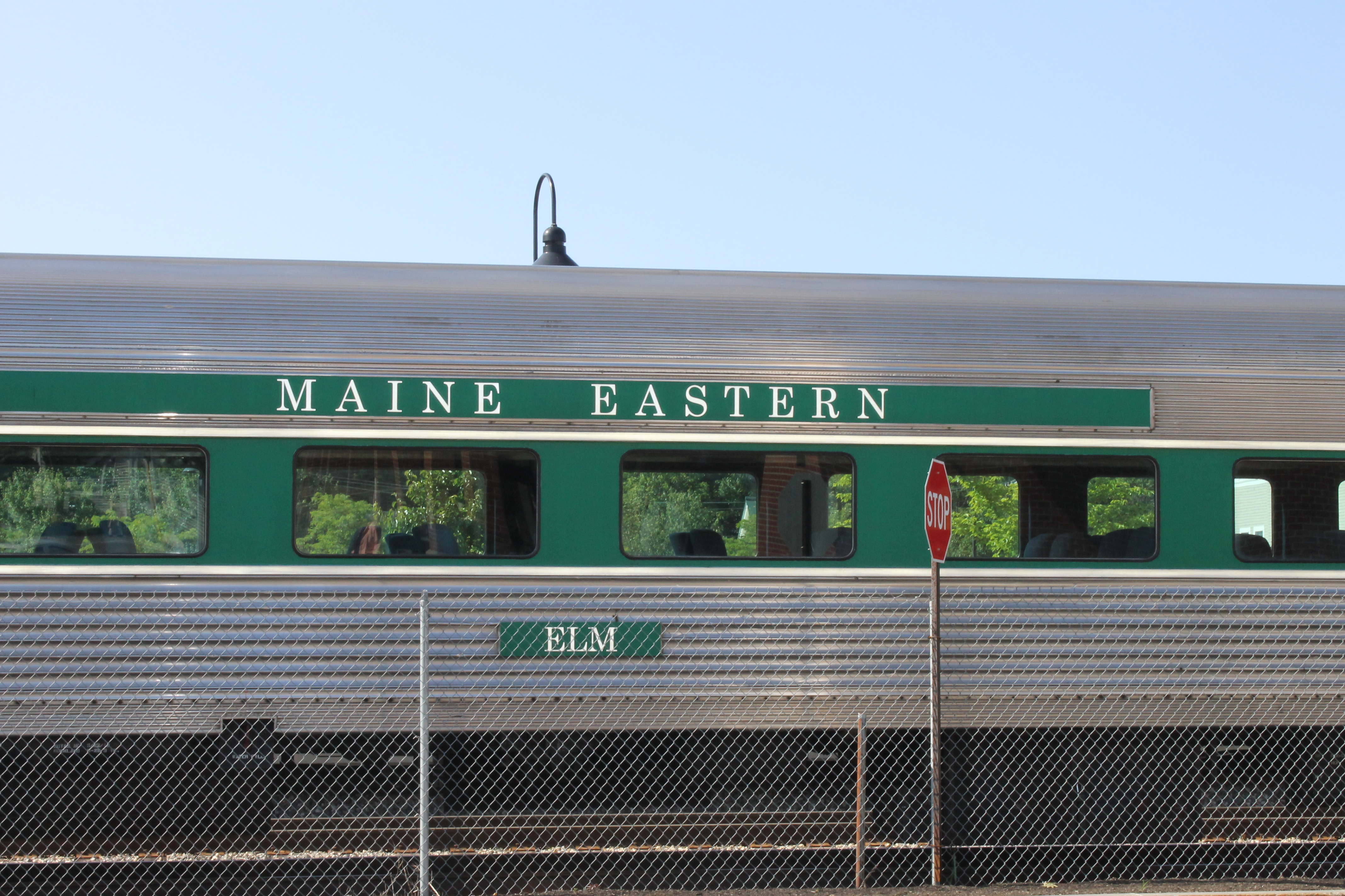 I took photo with Canon camera of Maine Eastern Amtrak train in Brunswick, ME. The Maine Eastern is not an Amtrak train as indicated in the file title.